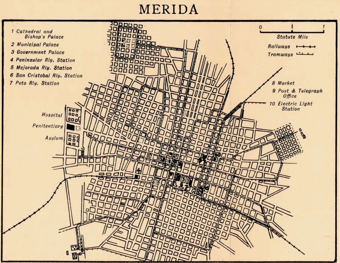 Plans of Inland Towns: Merida, Yucatan, showing landmarks, tram and railroad lines.